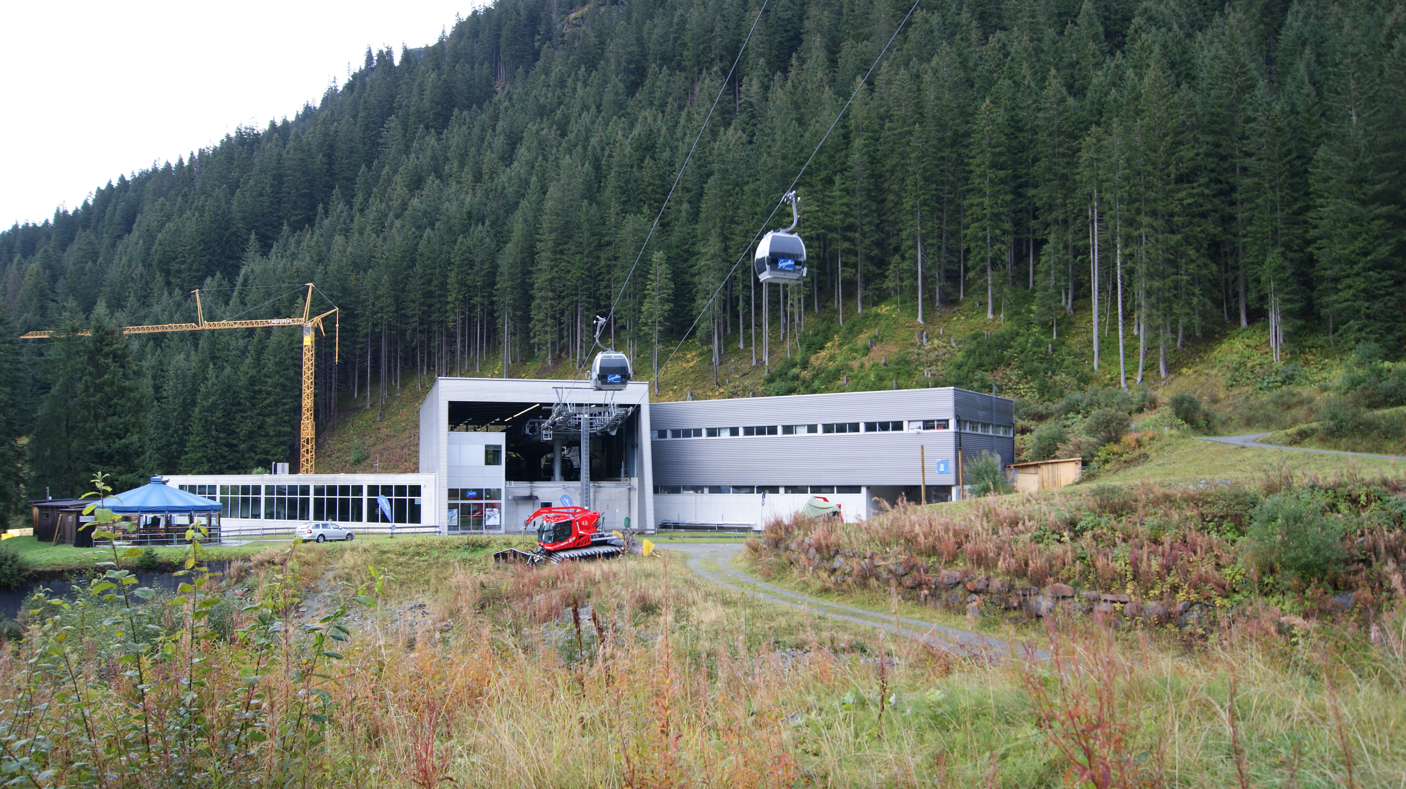 Valley station of the Schafbergbahn in Gargellen (Vorarlberg, Austria).